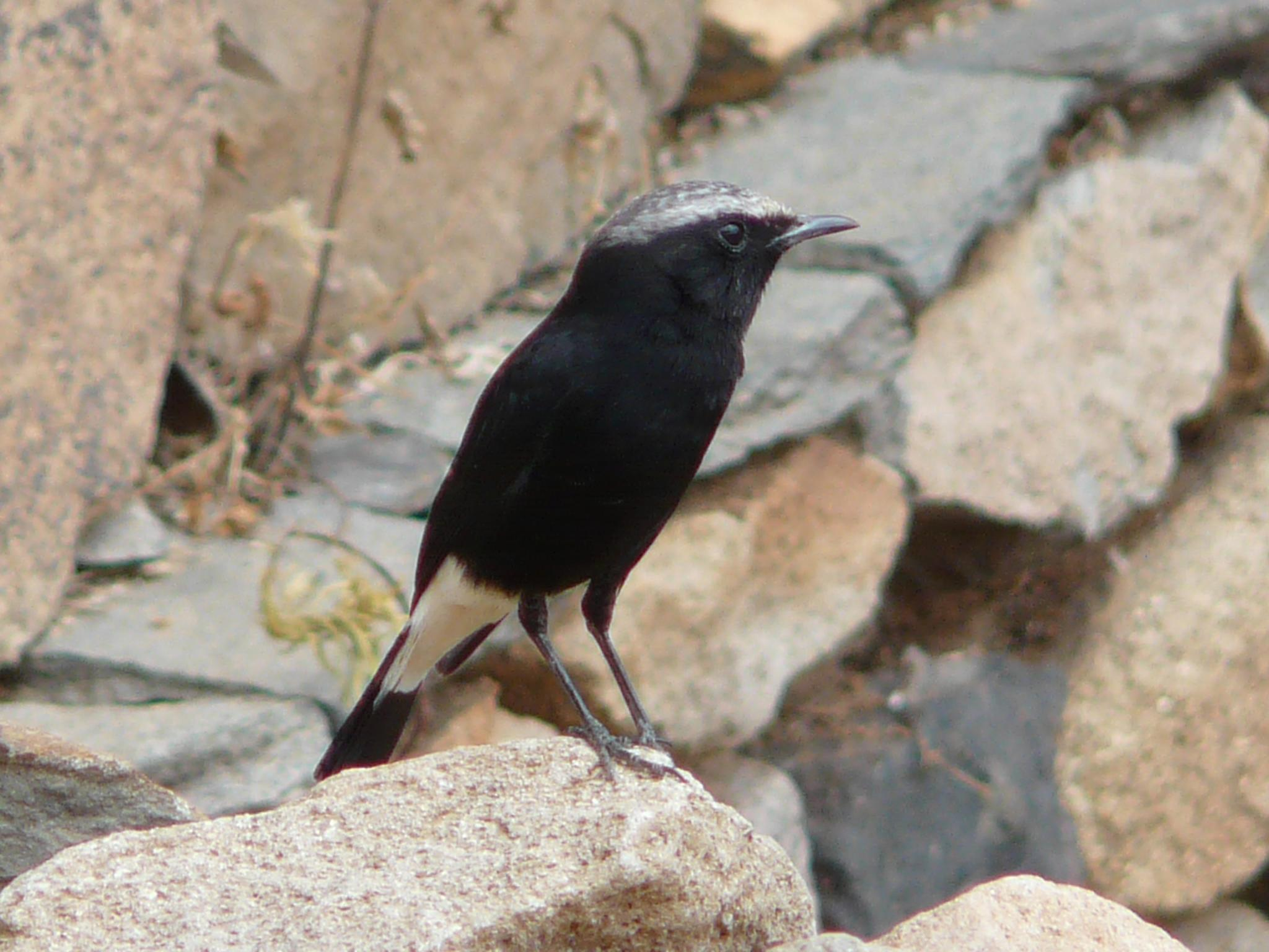 I thought I'd got a life bird here but sadly (per Clements) it's only an endemic subspecies.